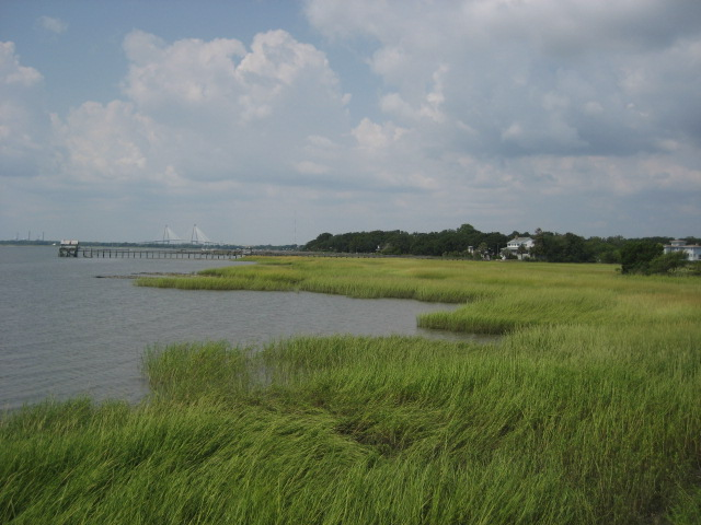 The old Pitt Street Bridge has been turned into a park in Old Village (in Mt. Pleasant, SC).